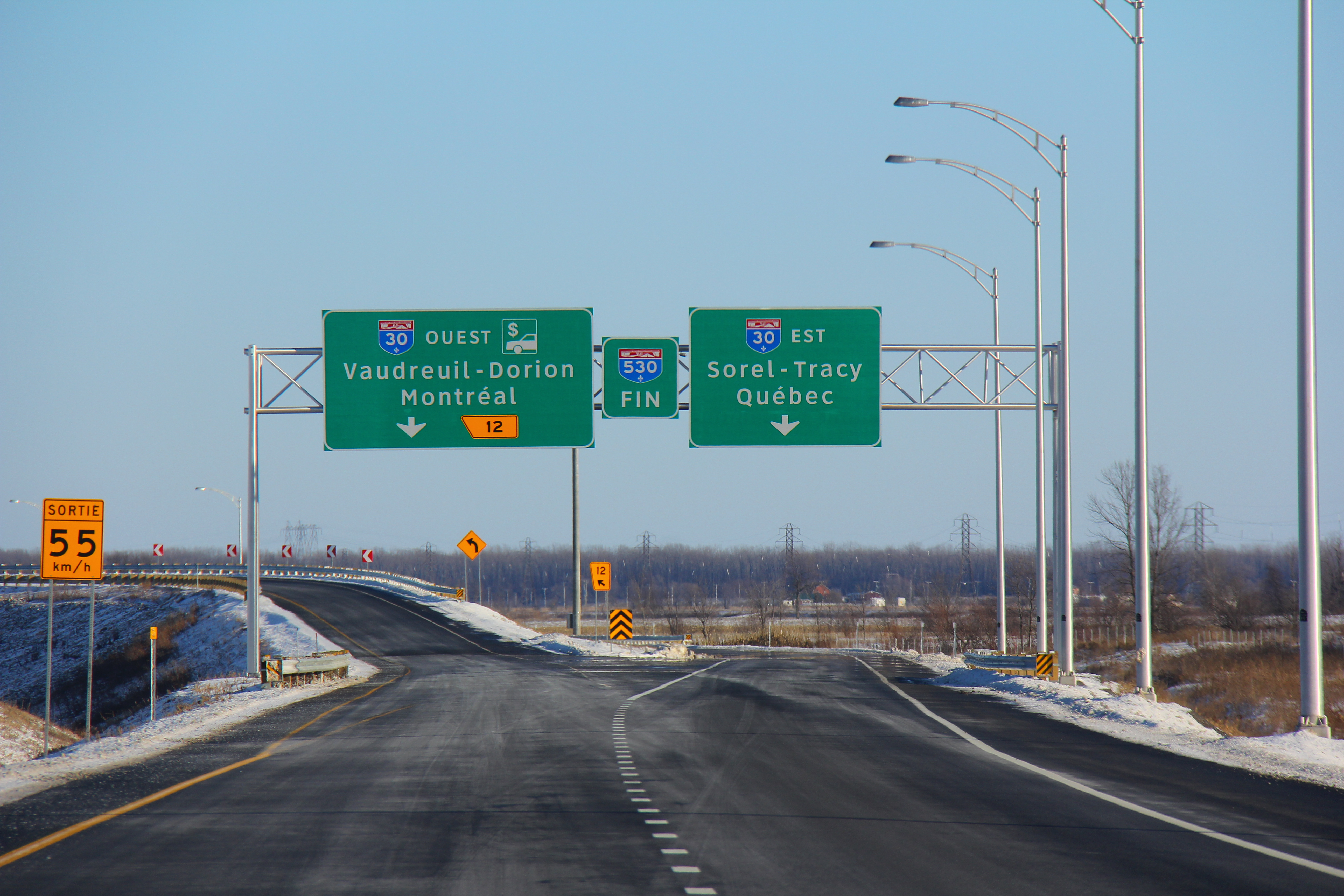 Eastbound Quebec Autoroute 530